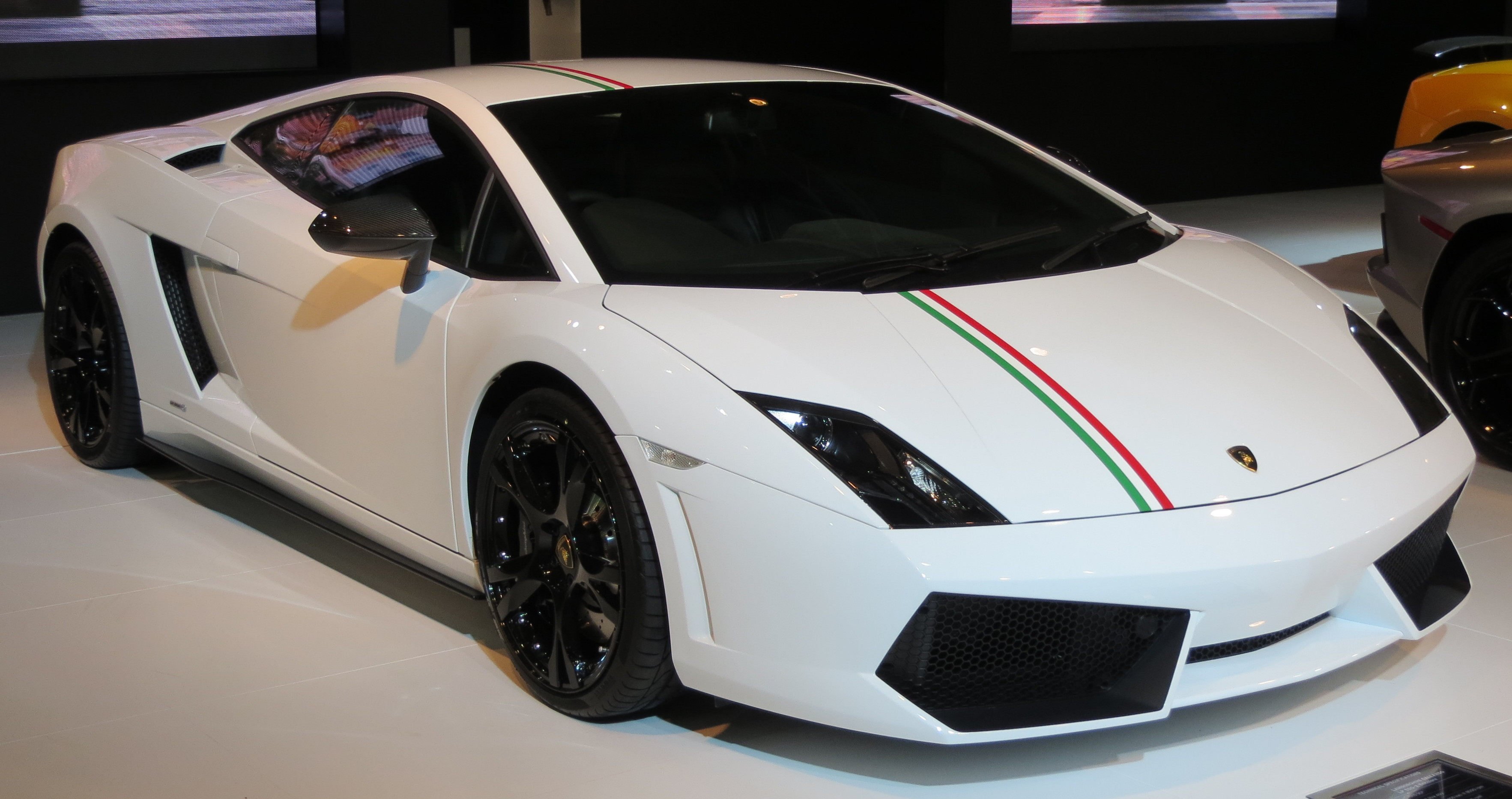 2012 Lamborghini Gallardo (L140) LP 550-2 Tricolore coupe. Photographed at the 2012 Australian International Motor Show, Sydney, New South Wales, Australia.